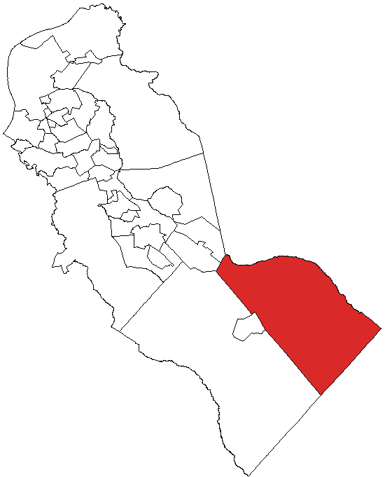 Map of Camden County highlighting Waterford